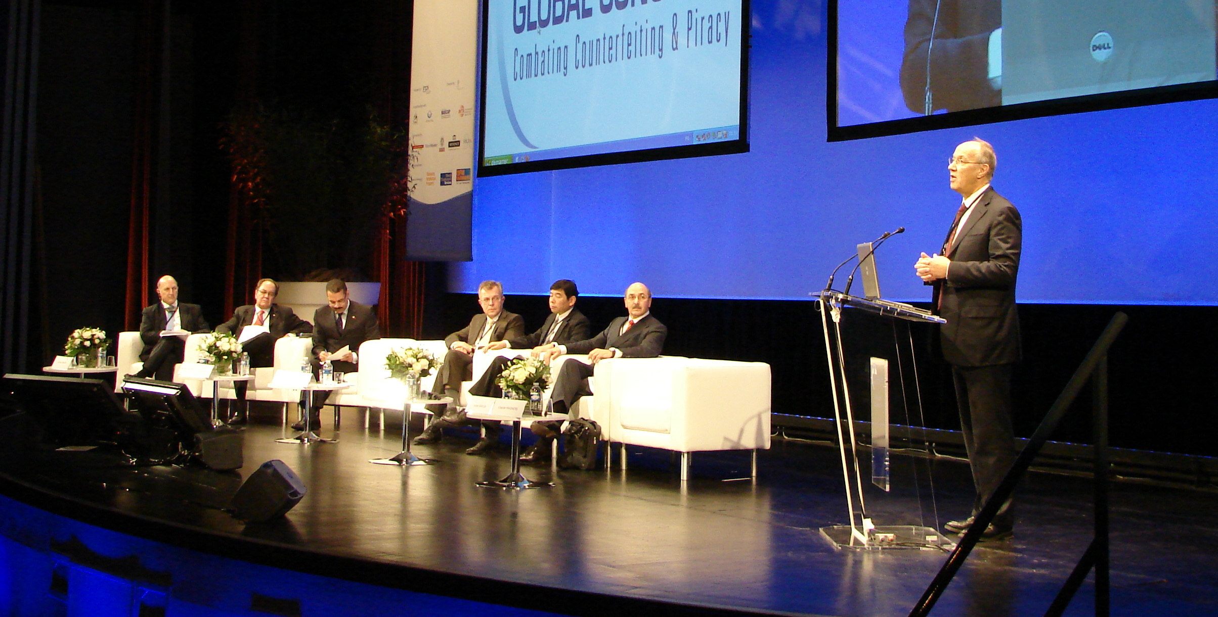 Francis Gurry, Director General of World Intellectual Property Organization at 6th Global Congress about combating piracy and counterfeilting